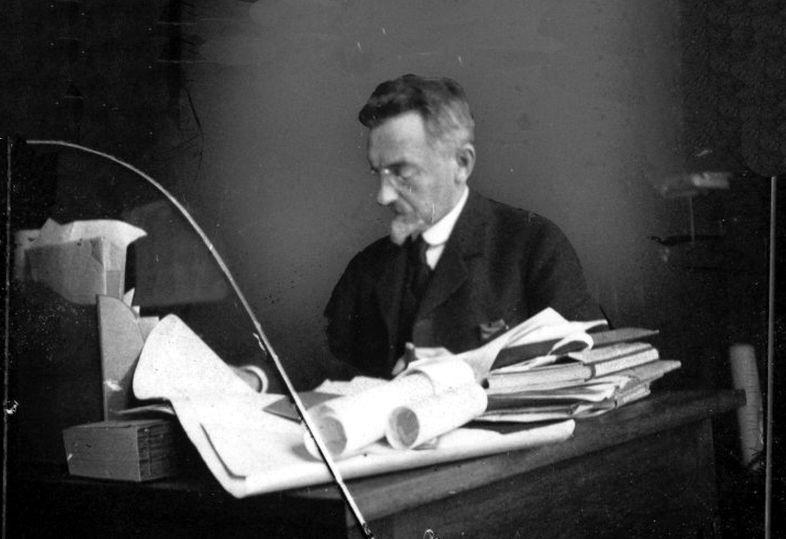 Prof. A.D.F.W. Lichtenbelt (1859-1922) hoogleraar aan de TH te Delft